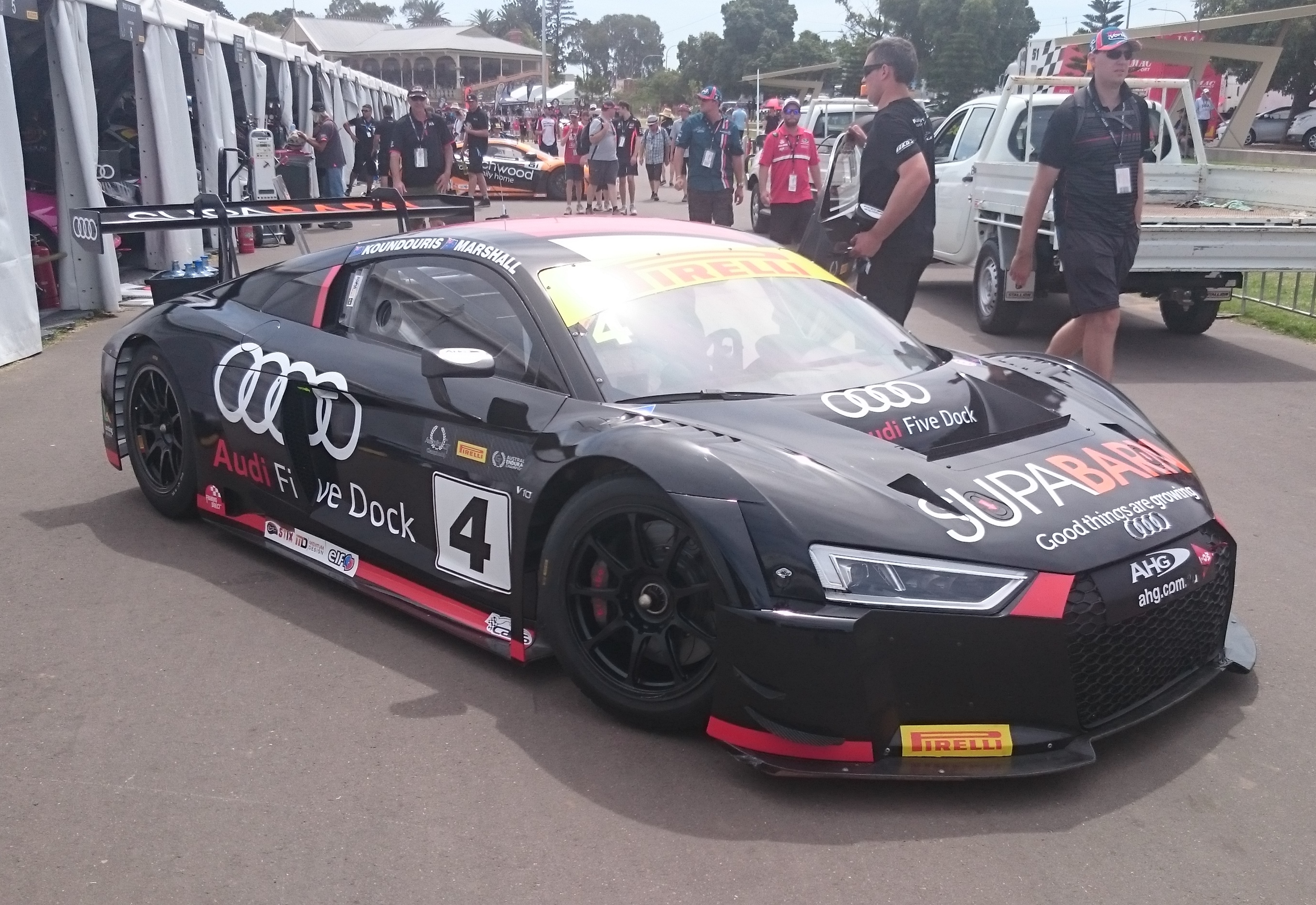 The Audi R8 LMS of James Koundouris & Marcus Marshall at the Adelaide Parklands Circuit for the opening round of the 2016 Australian GT Championship.